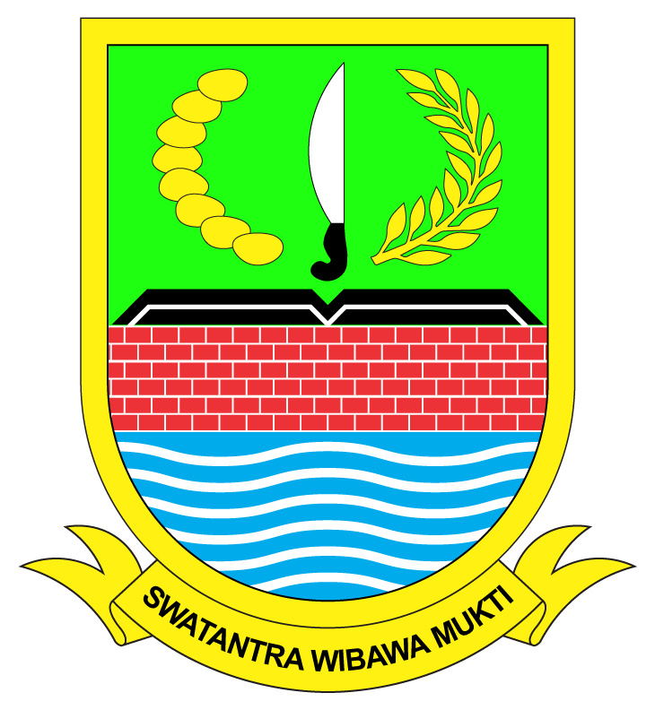 Coat of arms of Bekasi Regency, West Java